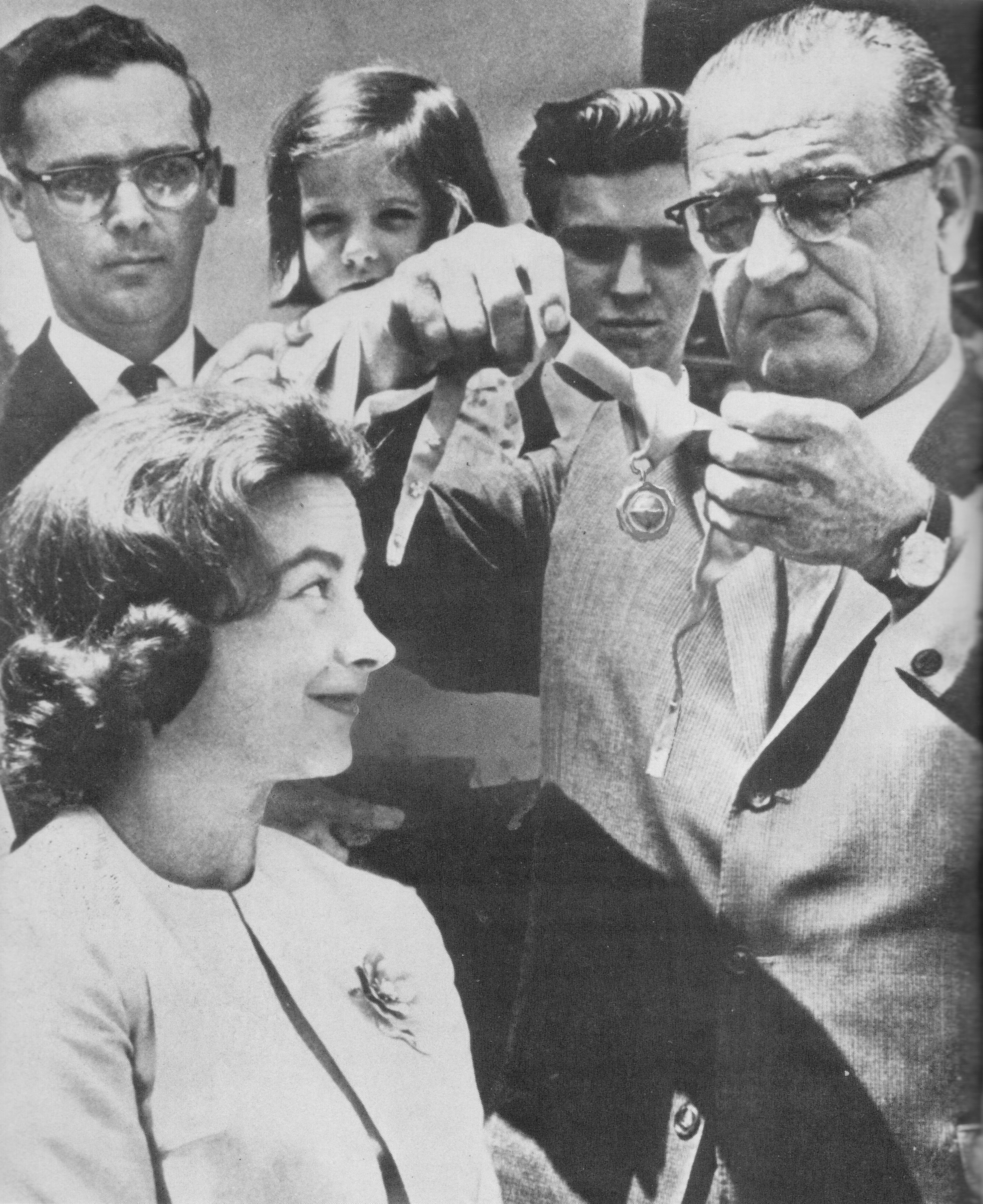 1964 Press Photo President Johnson awards flier Jerrie Mock with gold medal